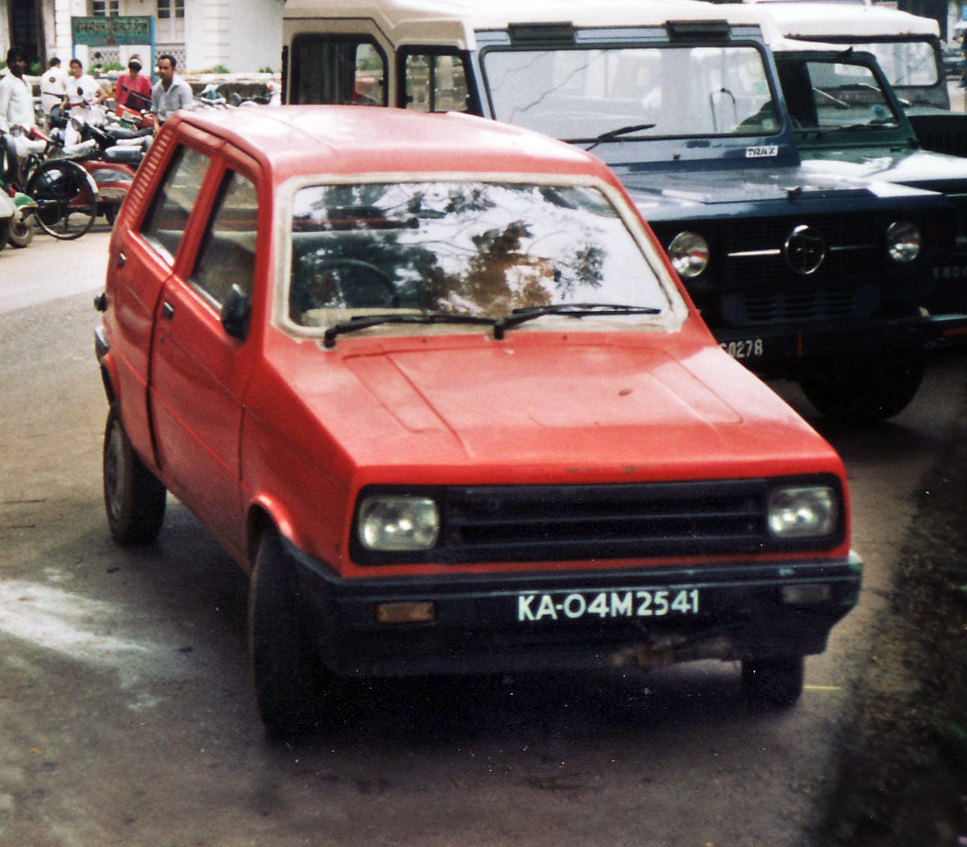 A Sipani Montana in Goa, India, October 1994